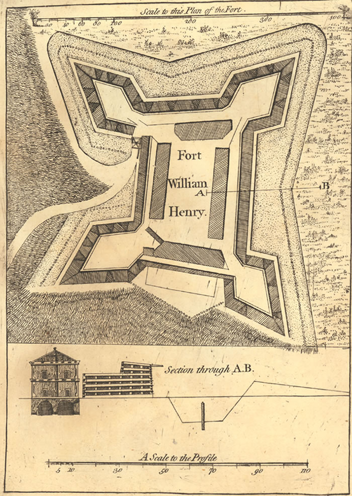 A period plan depicting Fort William Henry.